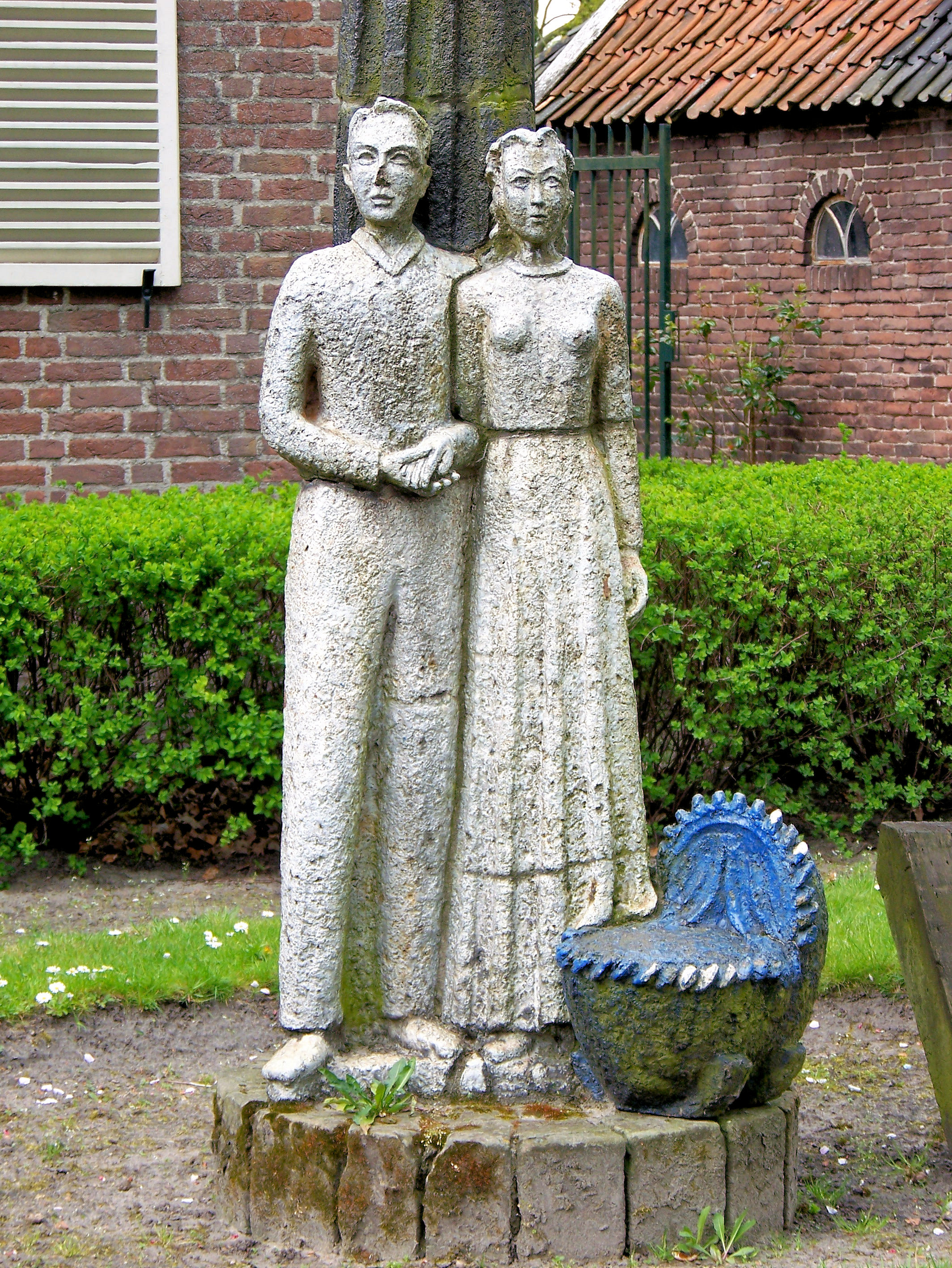 "Het Leven" (Life) by Anno Smith, Diever, 1959